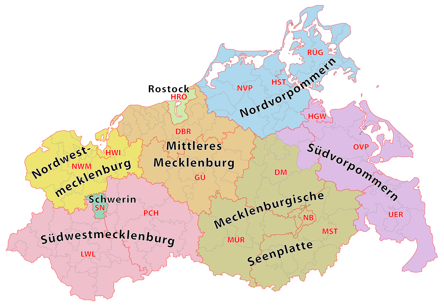 Changes in the counties of Mecklenburg-Western Pomerania in 2011 as they were planned in 2009